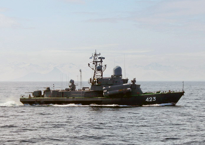 The Russian Nanuchka III class missile corvette Smerch underway